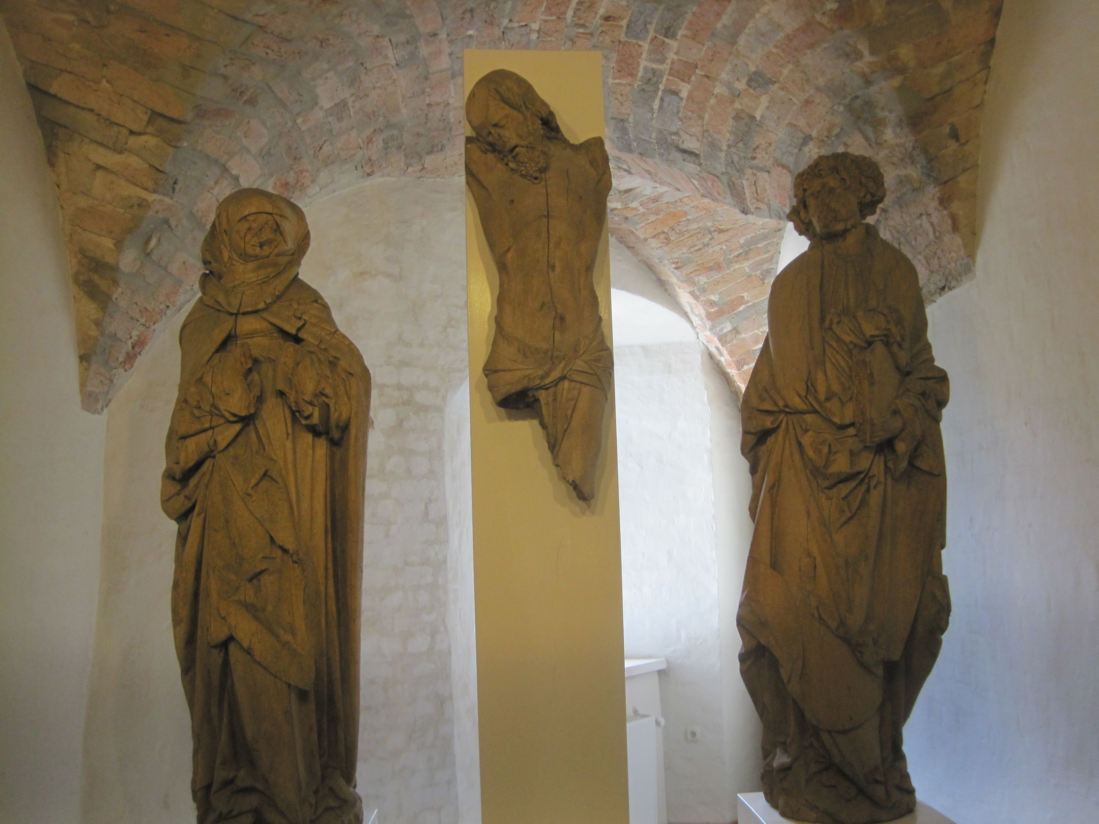 Calvary at Castle Museum, Gifhorn, Germany check usage